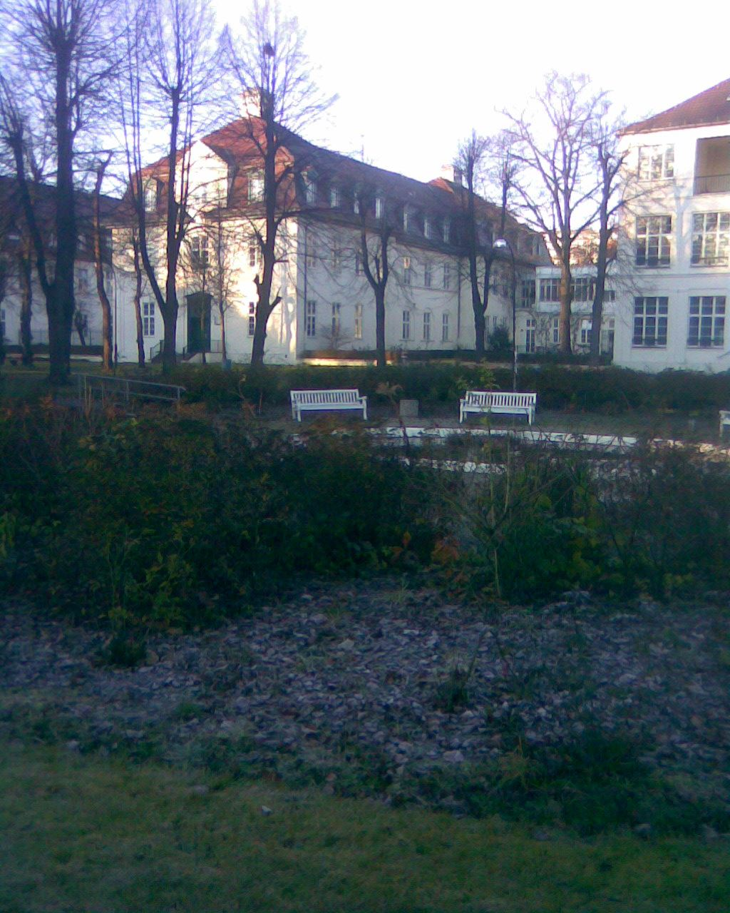 traditional architecture of the Berlin-Neukoelln hospital, now hosting the psychiatric wards